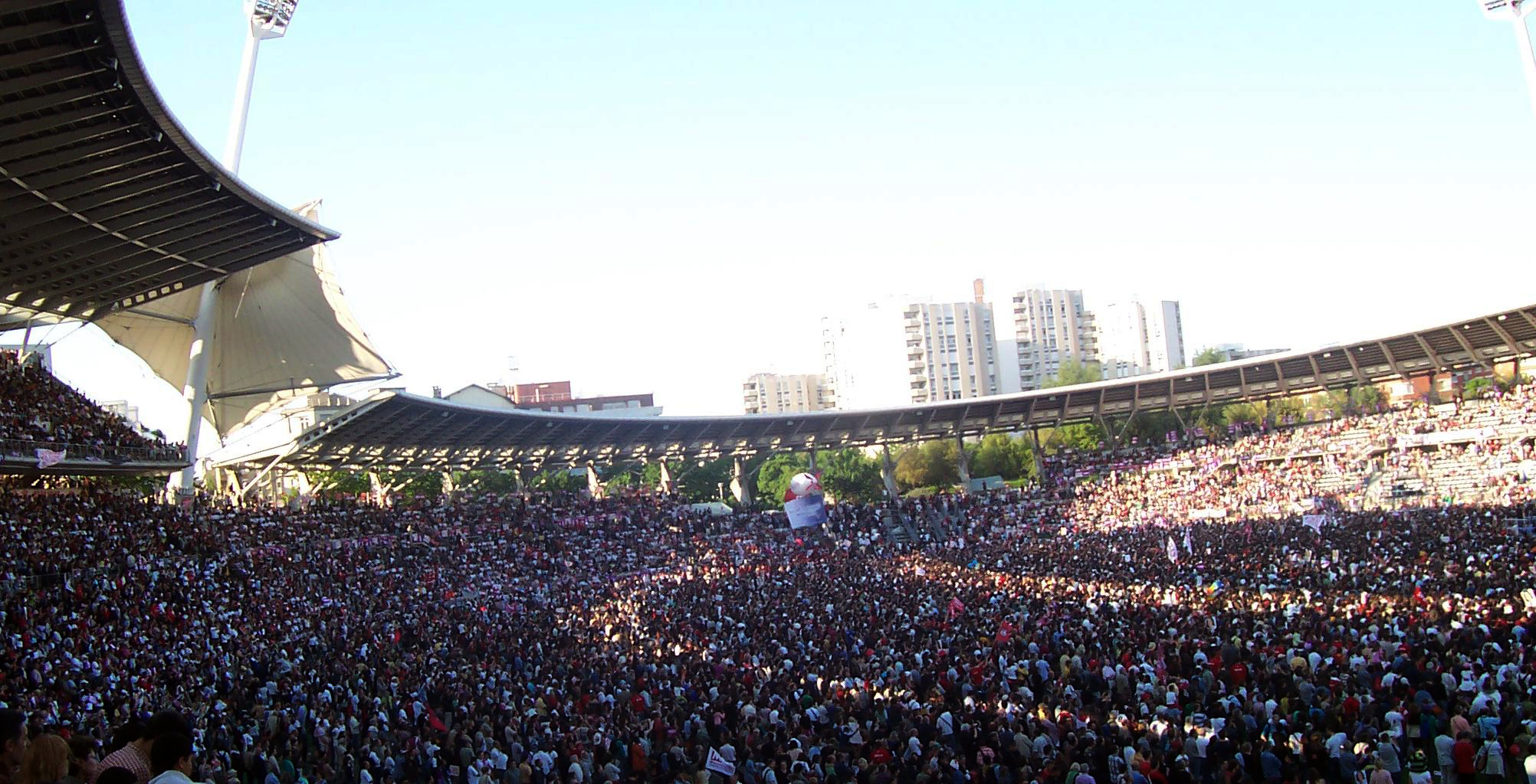 40 000 peoples during the Royal's meeting, at Carléty, at 1 May 2007